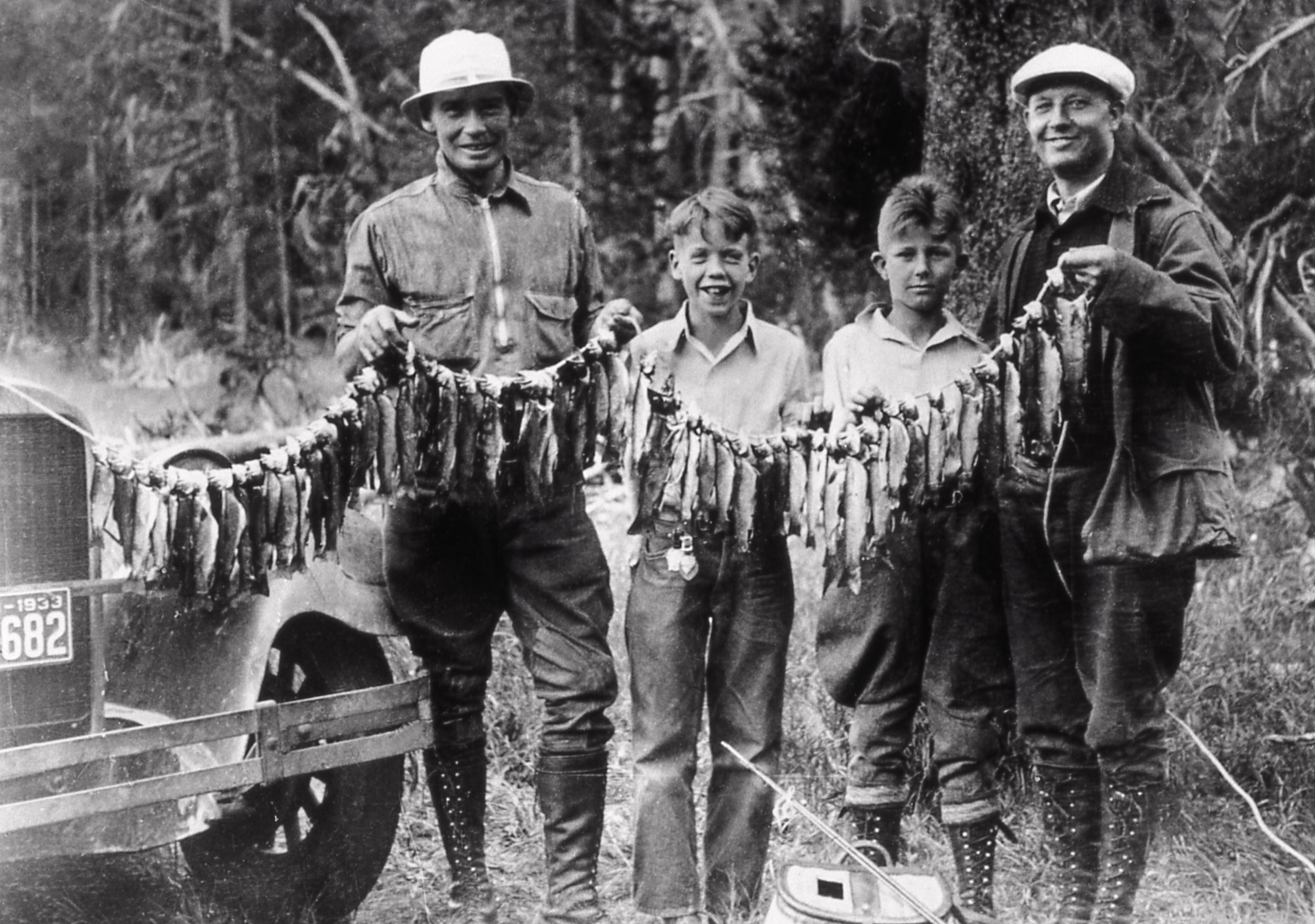 Typical Early 20th Century Fish Catch from Yellowstone National Park (1923)